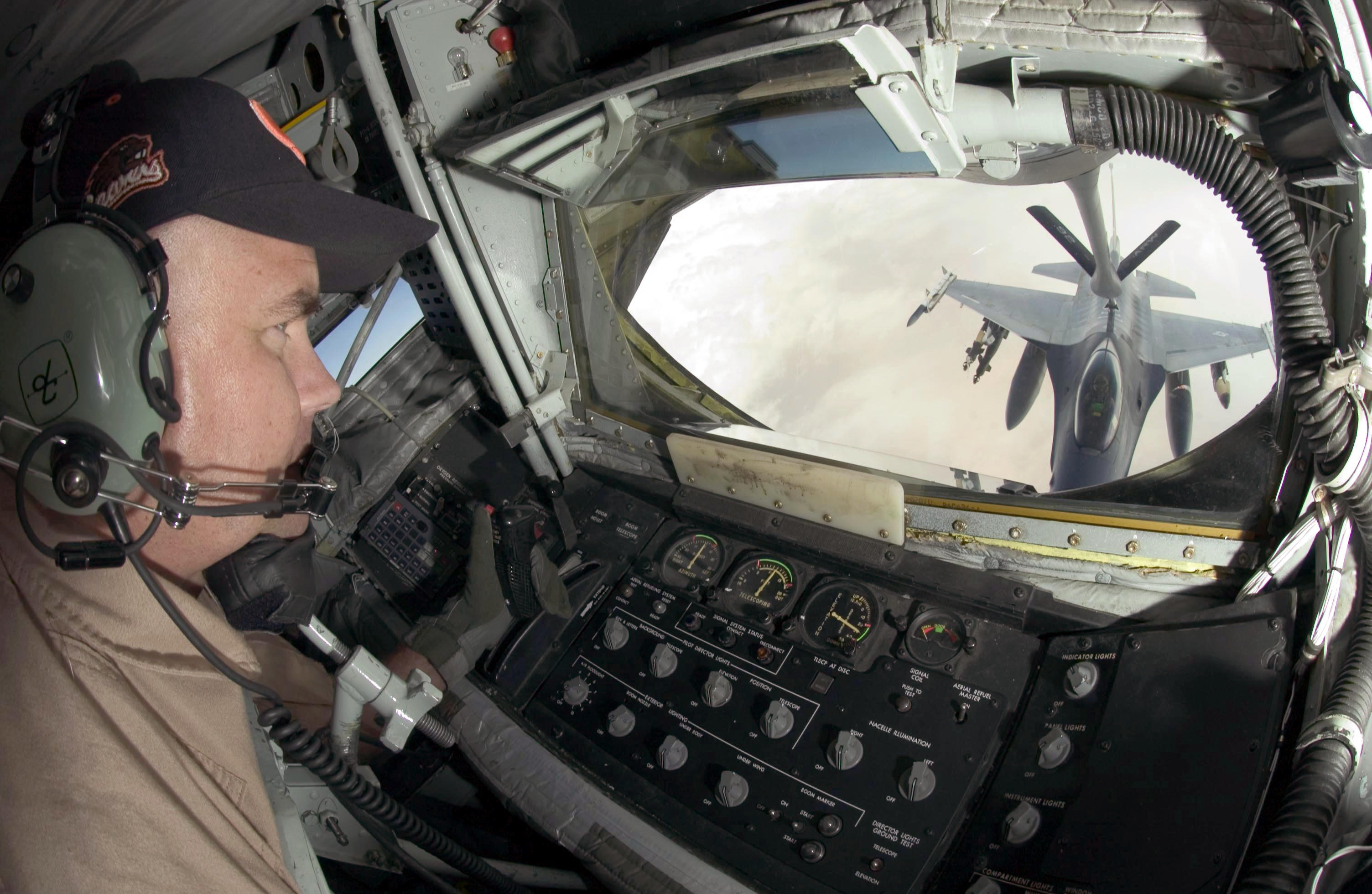 OVER IRAQ (AFPN) – From a KC-135 Stratotanker, Tech. Sgt. John Baughman refuels an F-16 Fighting Falcon during a mission supporting Operation Iraqi Freedom. Sergeant Baughman is a boom operator deployed from the 92nd Air Refueling Squadron at Fairchild Air Force Base, Wash. The F-16 is assigned to the 555th Fighter Squadron at Aviano Air Base, Italy. (U.S. Air Force photo by Master Sgt. John E. Lasky)